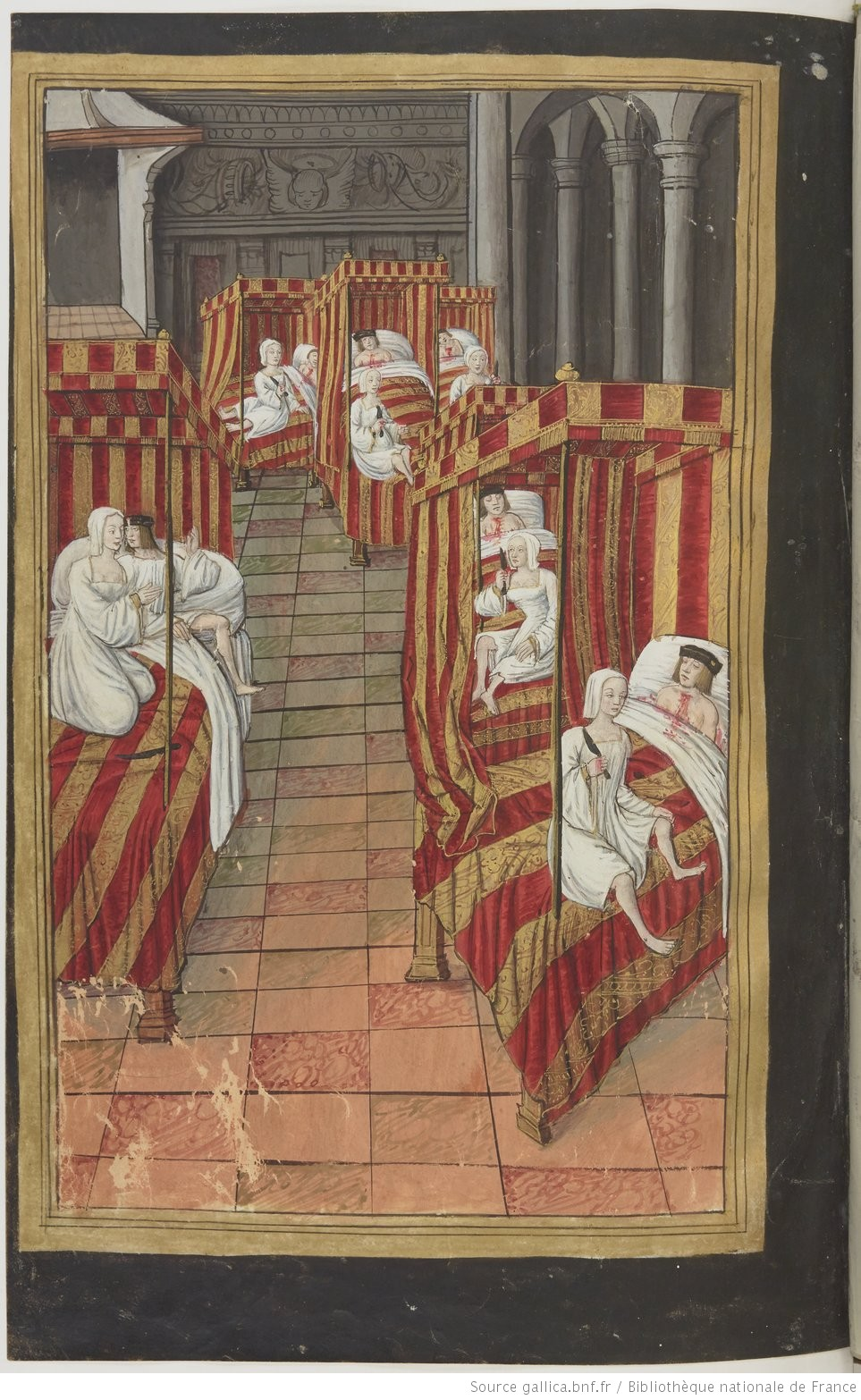 The Danaides kill their husbands. Bibliothèque nationale de France (BNF). Cote : Français 874, folio 170v.